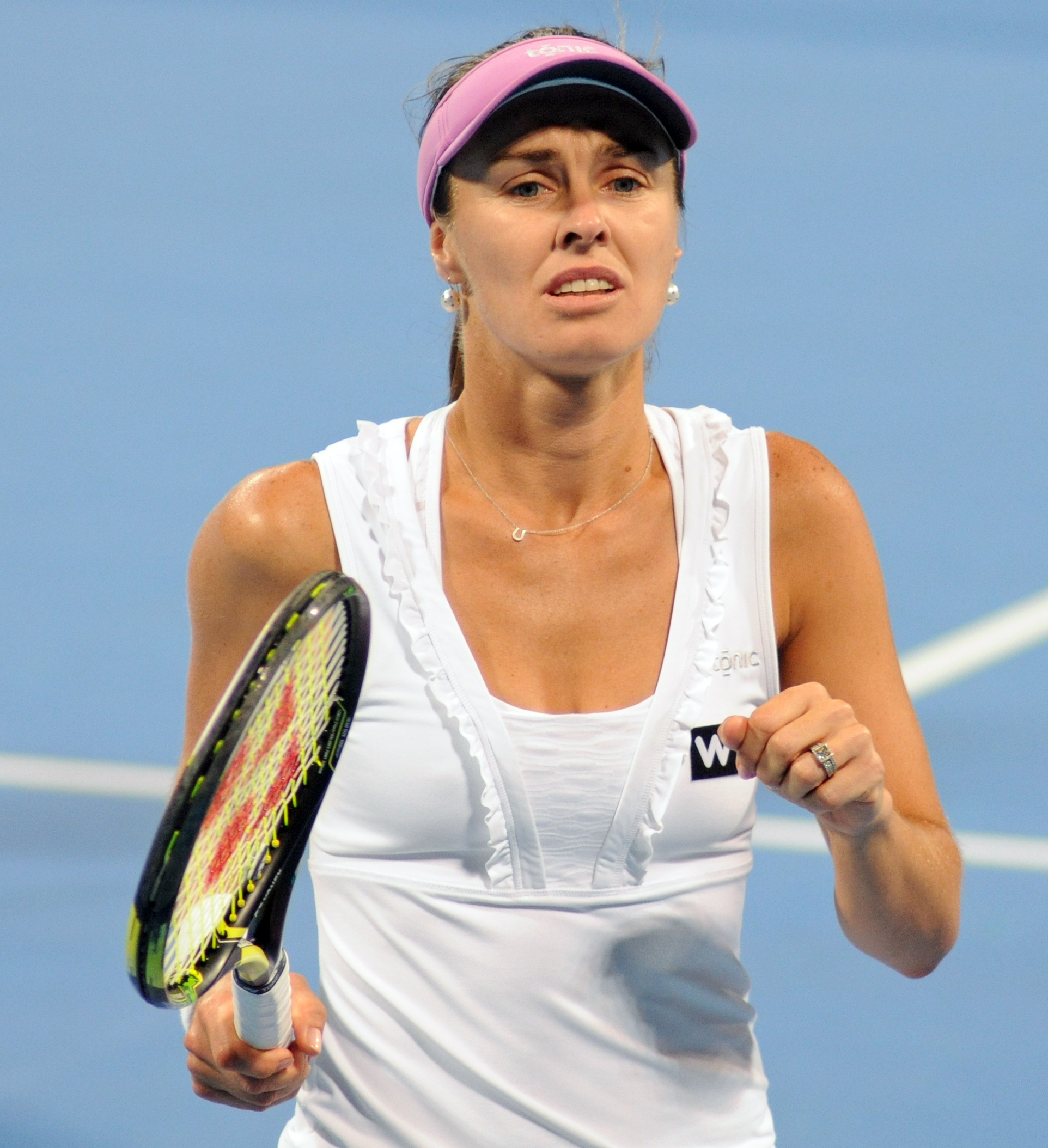 Martina Hingis at the 2014 China Open